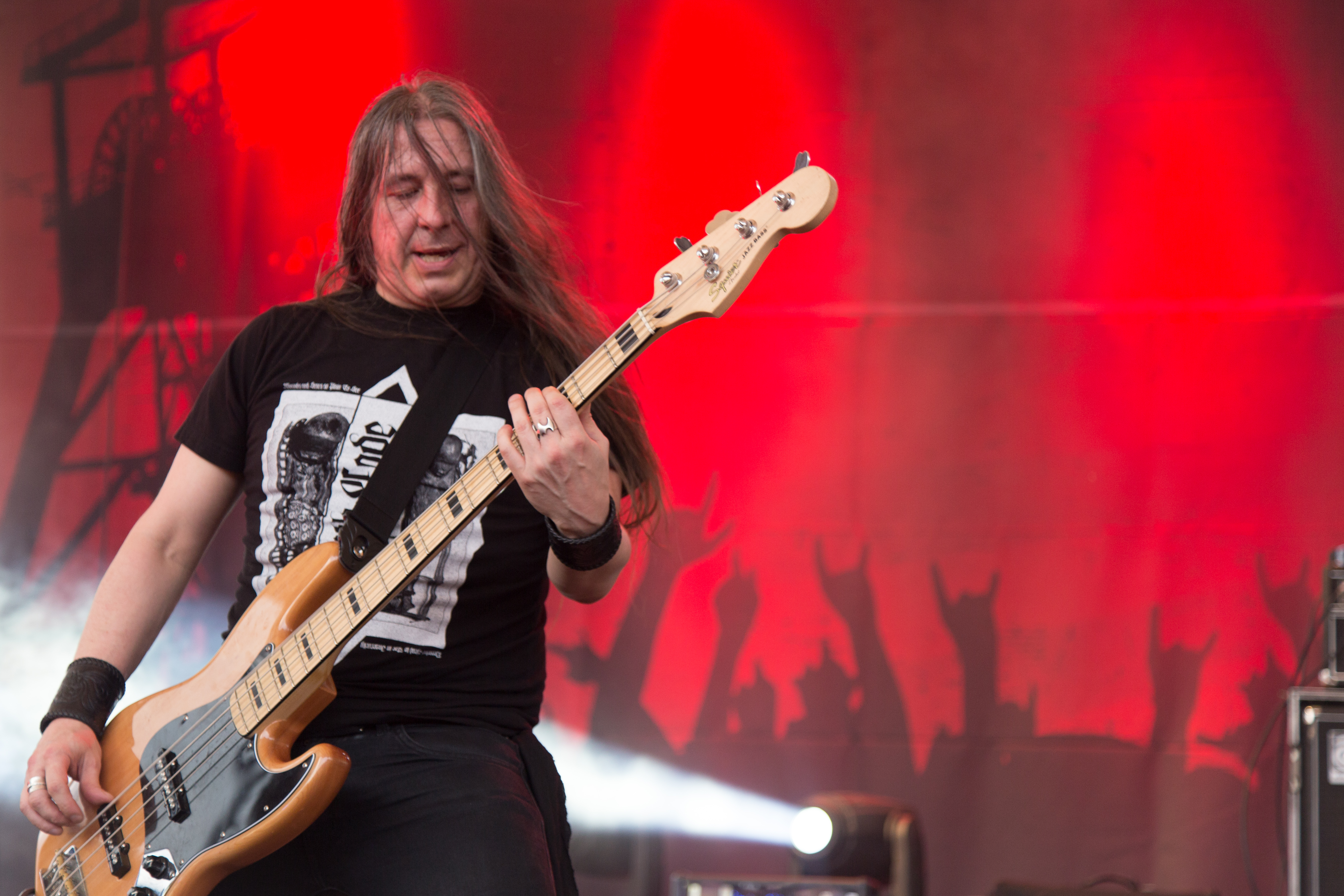 Candlemass performing live at Rock Hard Festival 2017, Gelsenkirchen, Germany